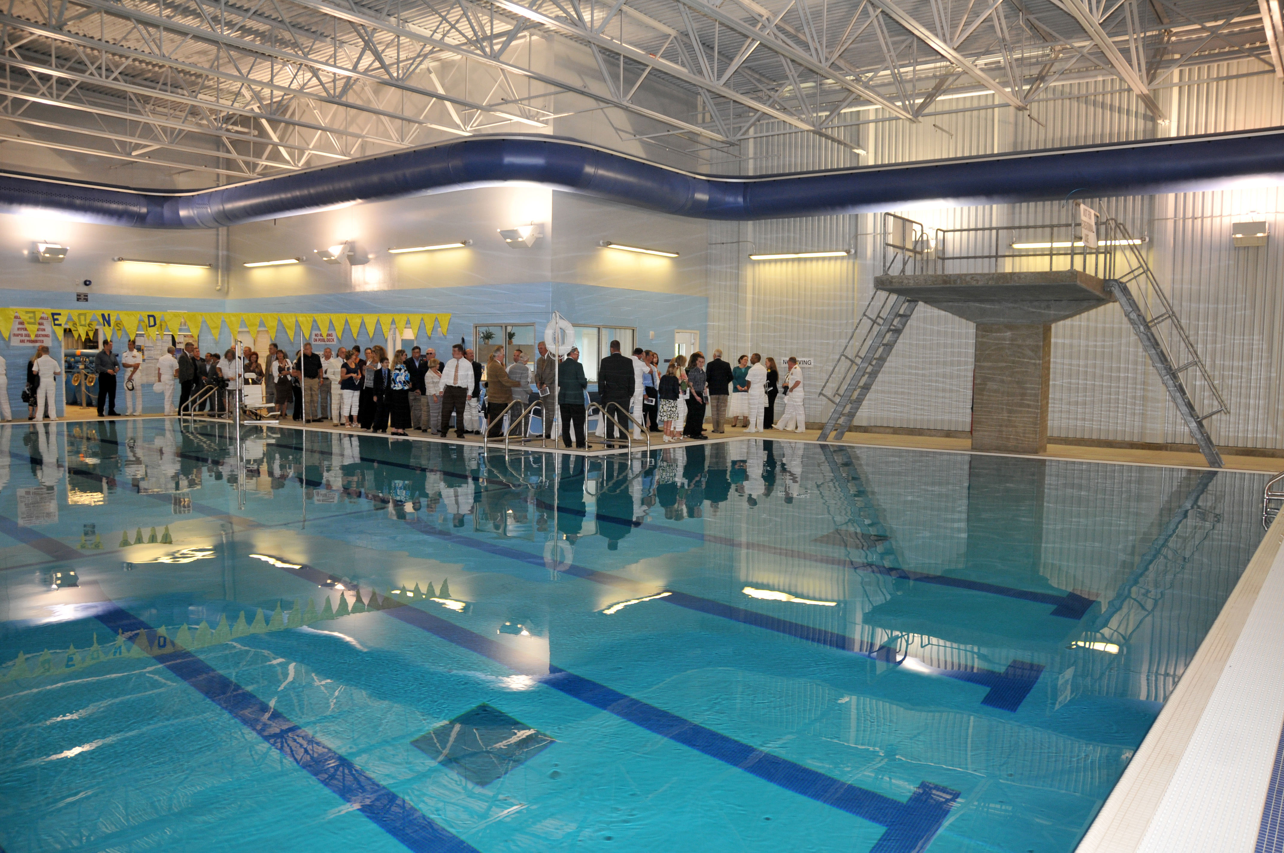 NEWPORT, R. I., (July 9, 2009) Guests tour the new Lt. Michael Murphy Combat Training Pool during a dedication ceremony at Officer Training Command, Newport. The pool will be used by officer candidates and students at Officer Training Command Newport for swim qualifications. Murphy, a Navy SEAL and Medal of Honor recipient, was killed in action in Afghanistan on June 28, 2005. Murphy was awarded the nation's highest military honor for conspicuous gallantry and intrepidity at the risk of his life above and beyond the call of duty for trying to call for help from an exposed location for his wounded four-man team against superior odds of about 100 enemy fighters. (U.S. Navy photo by Scott A. Thornbloom/Released)